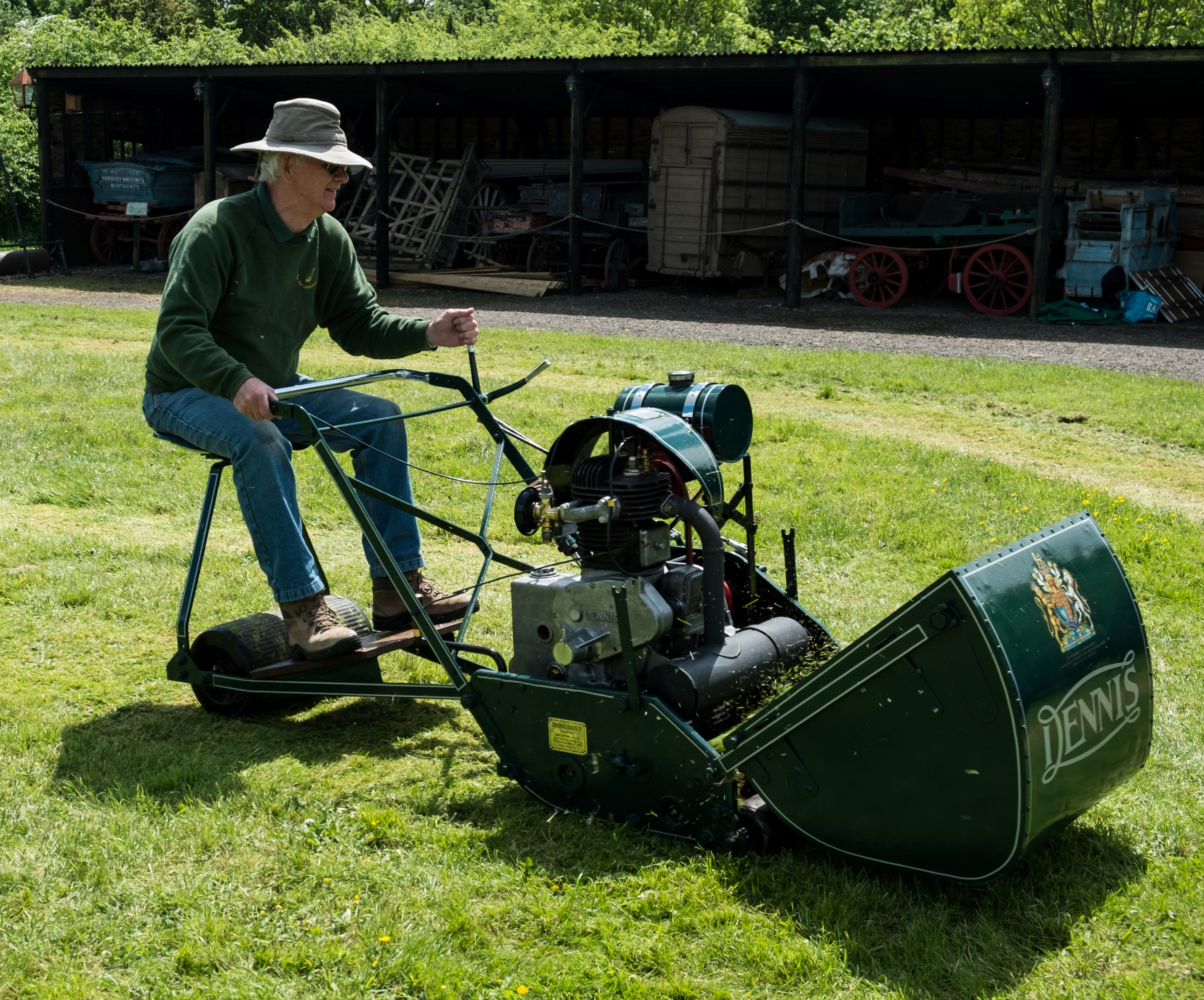 Dennis motor mowerPlenty to mow, Lawnmower Day 2016 © Derek Barrett